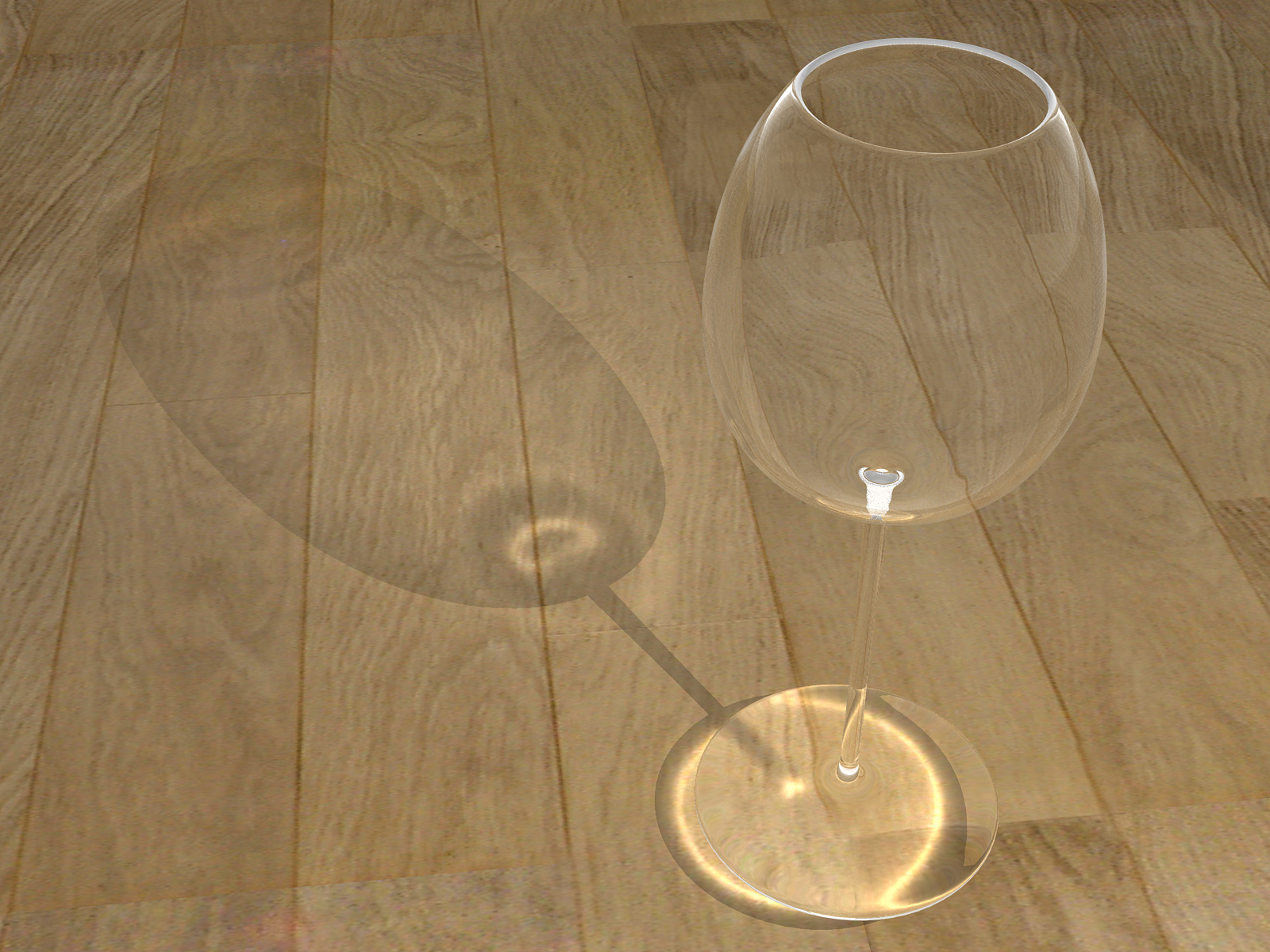 A glas out of a NURBS surface. In this image strip the energy of the emitted caustics photons changed. In this image the energy was at 2000. Rendered with mental ray (caustics, raytraceing).